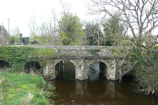 Craughwell Bridge This bridge over the Dunkellin River used to carry the Loughrea to Galway road. It was bypassed by a newer bridge, on which I am standing, carrying the N6.